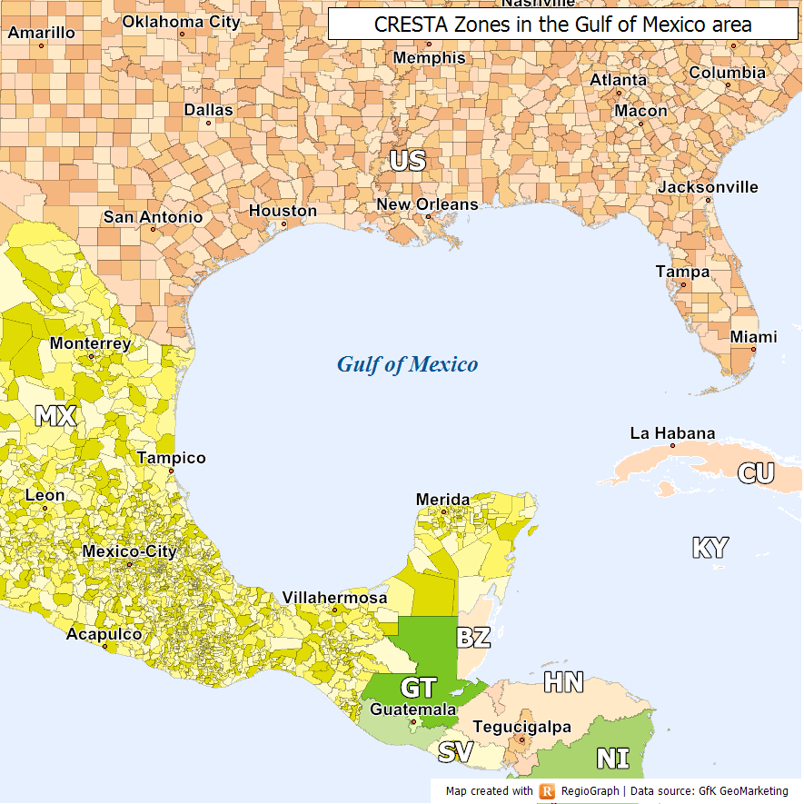 Map sample of the CRESTA (Catastrophe Risk Evaluating and Standardizing Target Accumulations) system. It shows individual CRESTA zones in the Gulf of Mexico region. Within a zone the risk is for insurance considered to be equal.